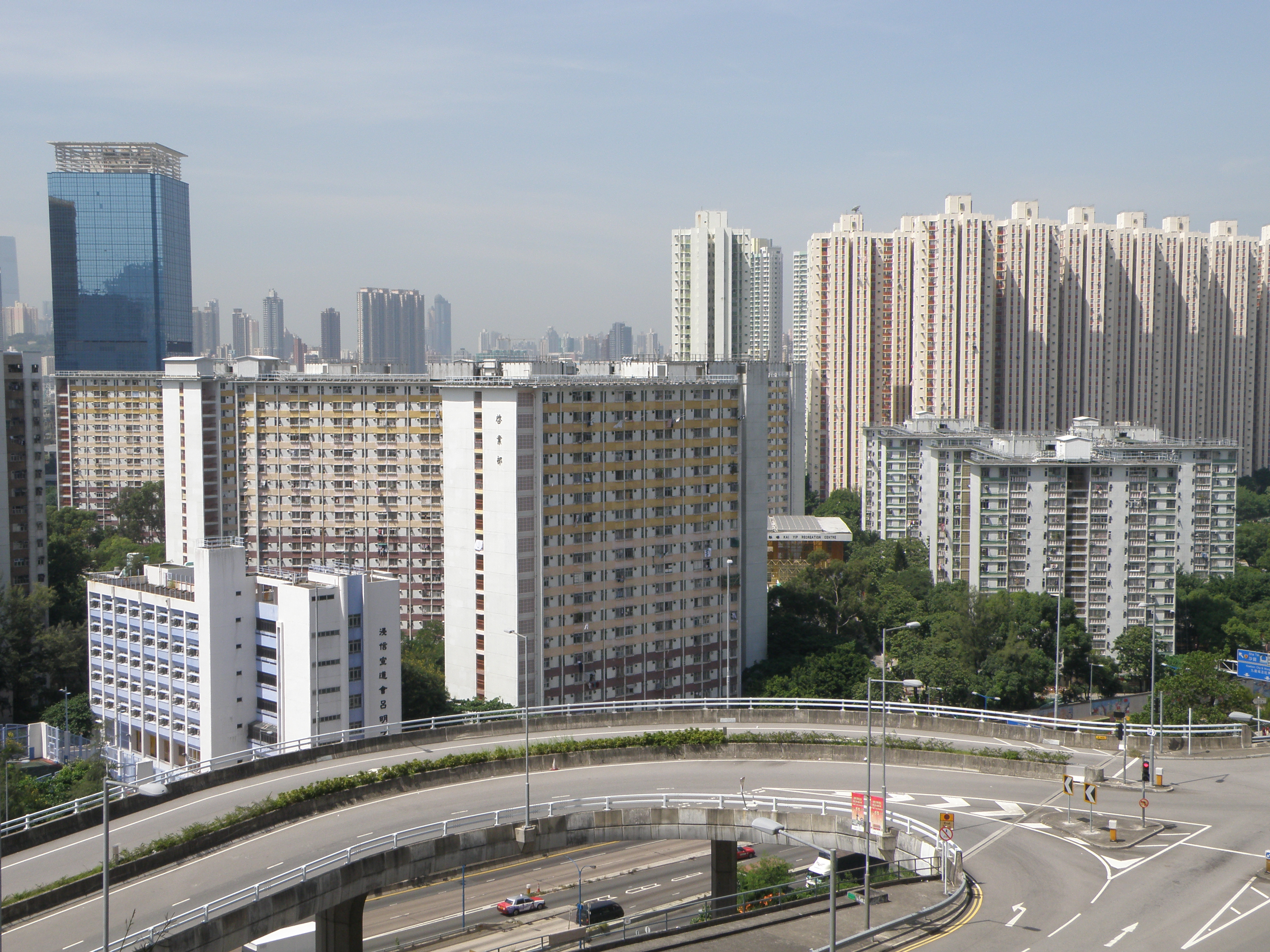 Kai Yip Estate in Kowloon Bay, Hong Kong.